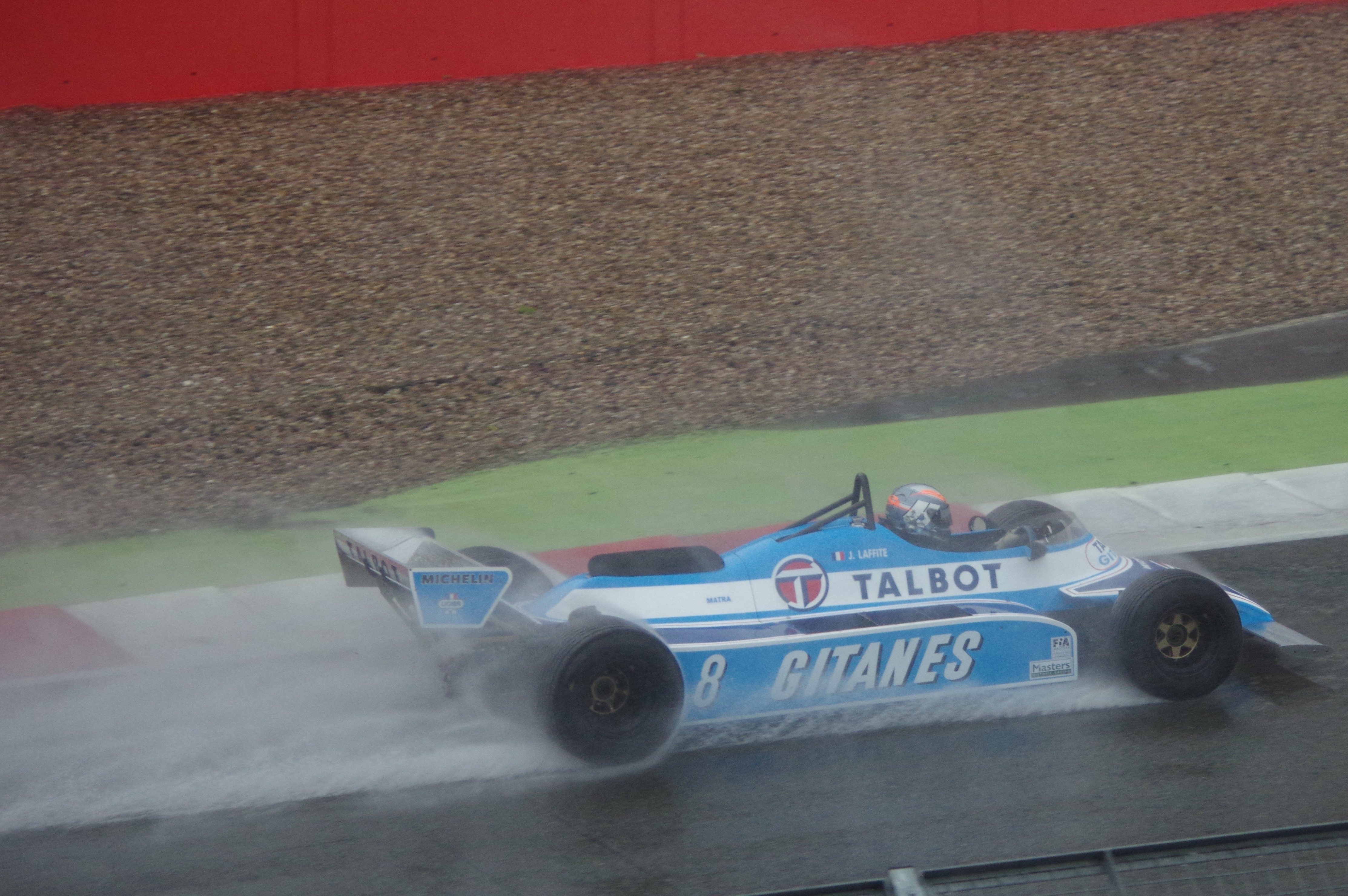 1981 Ligier JS17 in the rain at FIA Historic F1, Silverstone Classic 2015